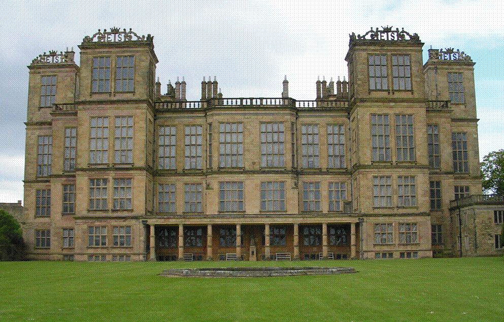 Hardwick Hall photographe 1.VI.06 by uploader